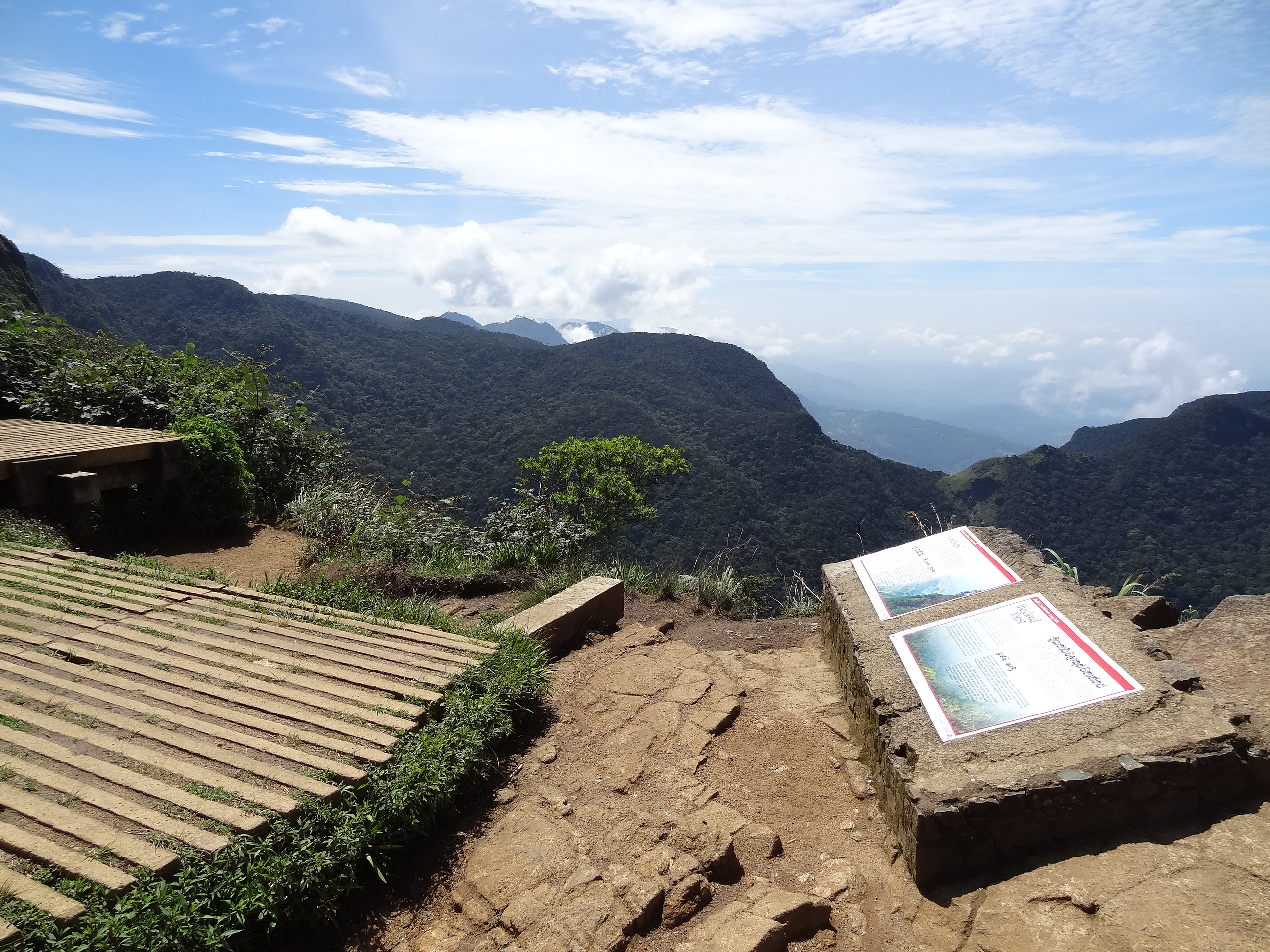 Horton Plains National Park